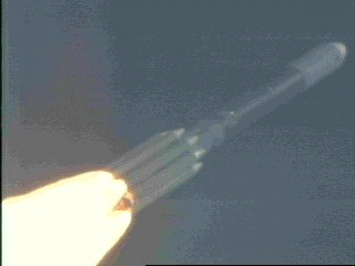 ACE launch: Six of nine GEM booster of ACEs Delta 7920-8 burning in the first flight phase.